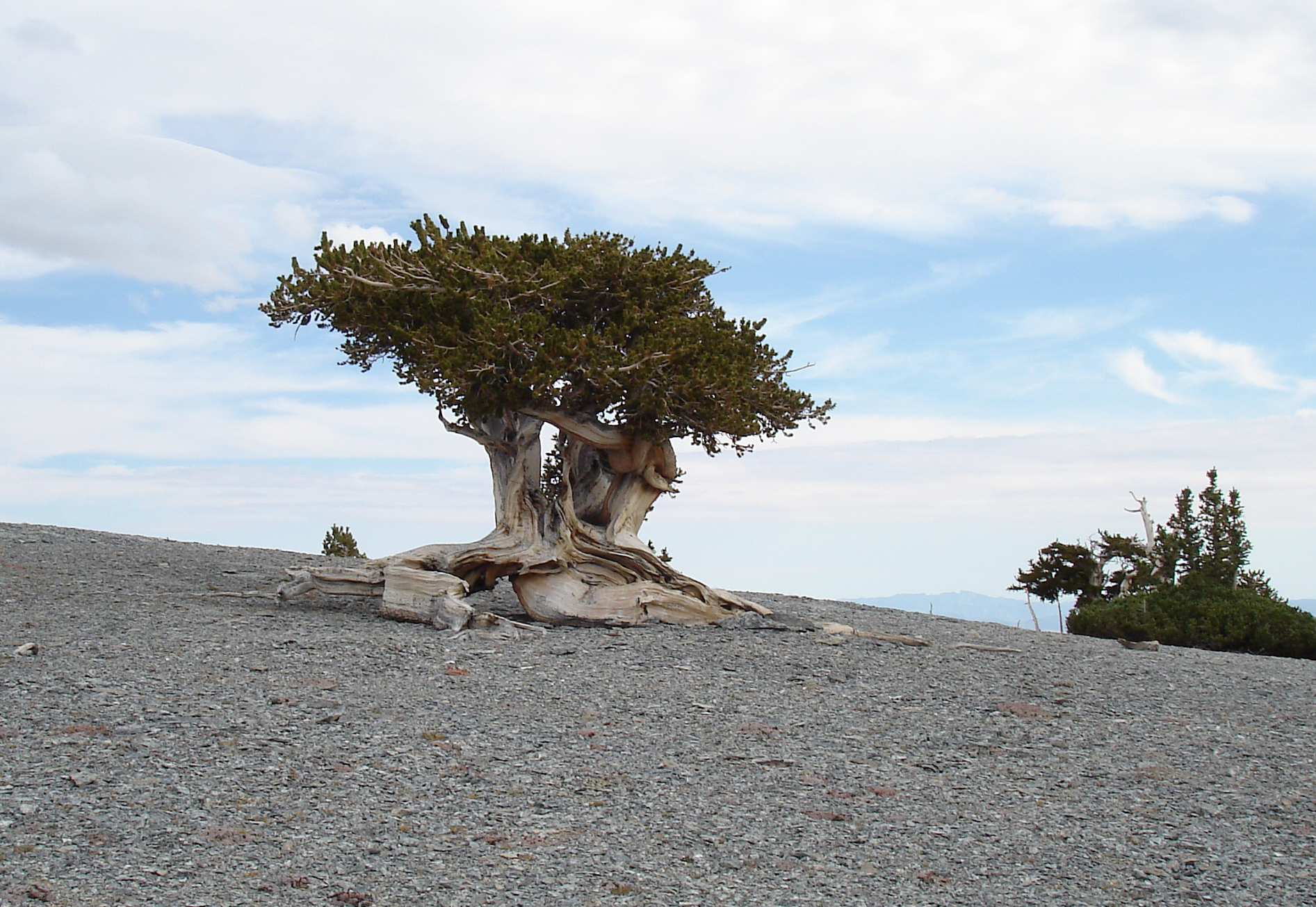 Pinus longaeva on Mt. Washington in the backcountry of Great Basin National Park.